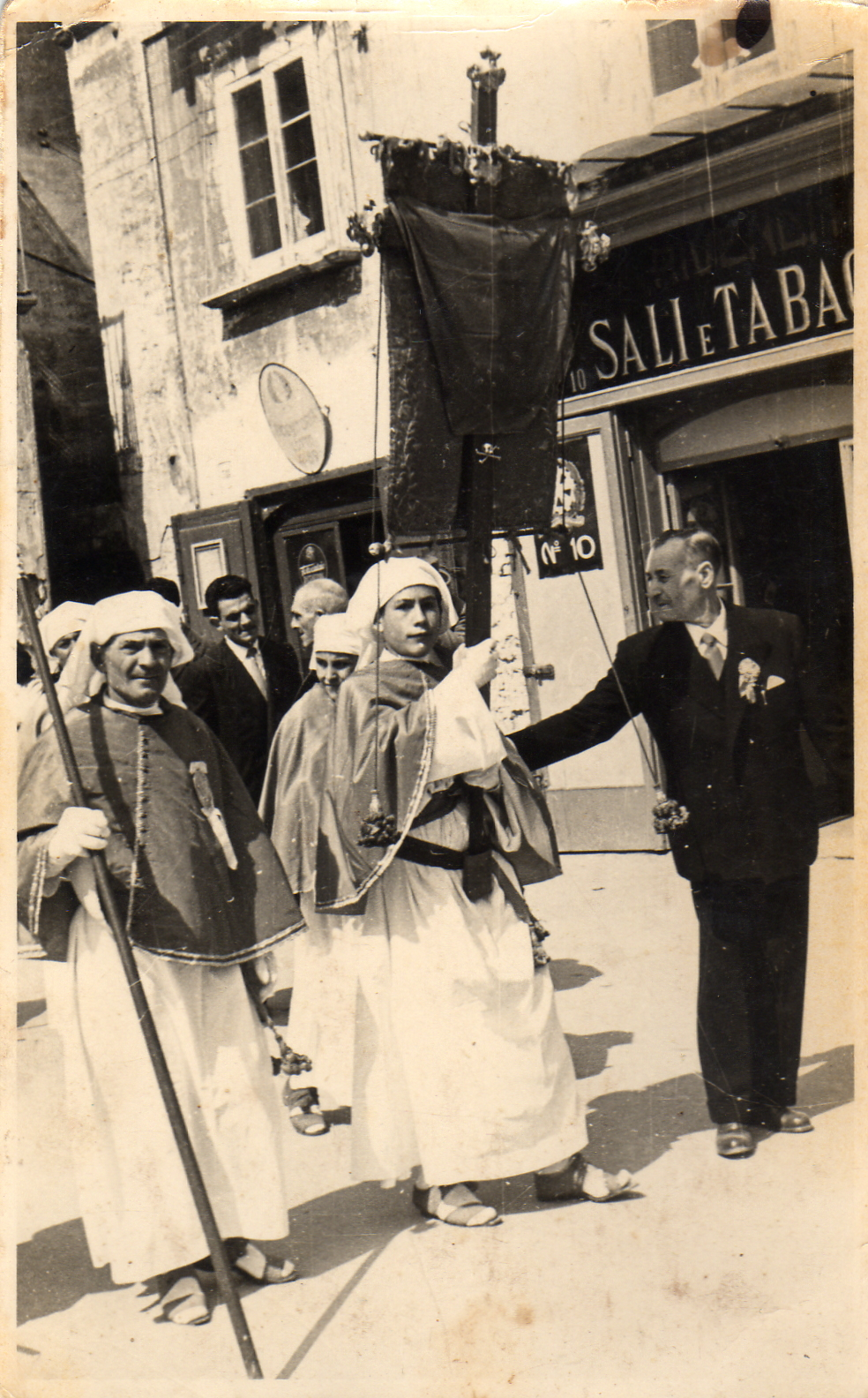 Procession of Holy Cross in Taranto